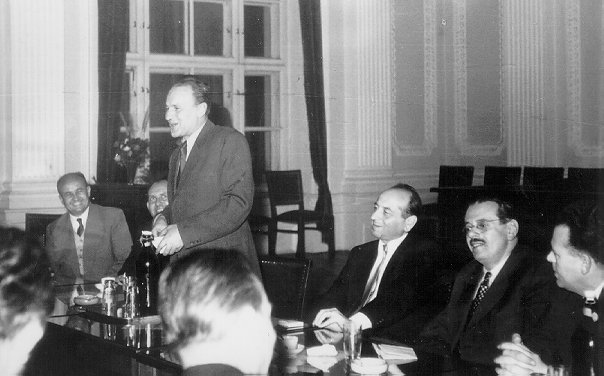 János Kádár was at the University of Szeged in 1961